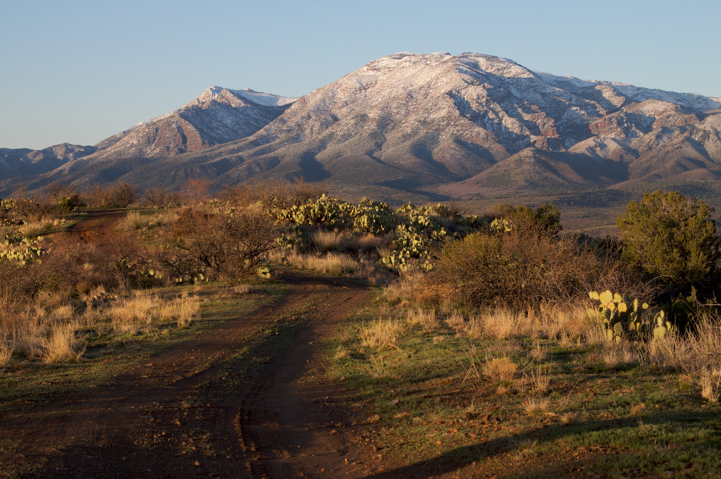 East side of the Mazaztal Peaks area, in the Mazatzal Mountains range, central Arizona. Lots of great wilderness trails here.